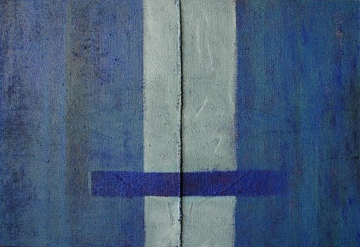 Jute 17 (Acryl op Jute, 95x65 cm) - Francoise Stoop, 2005